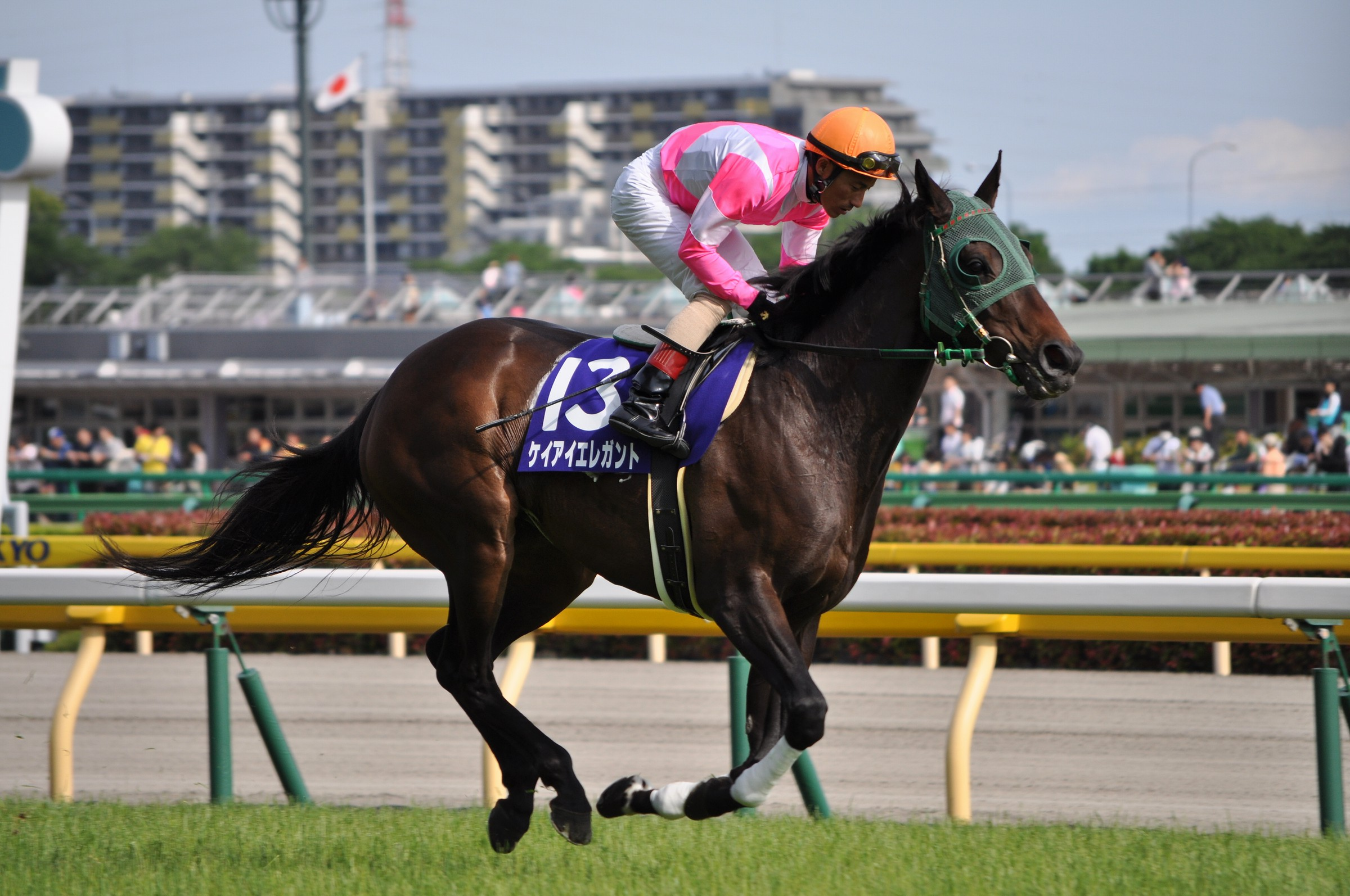 Japanese race horse Keiai Elegant at Tokyo racecourse(The 9th Victoria Mile).